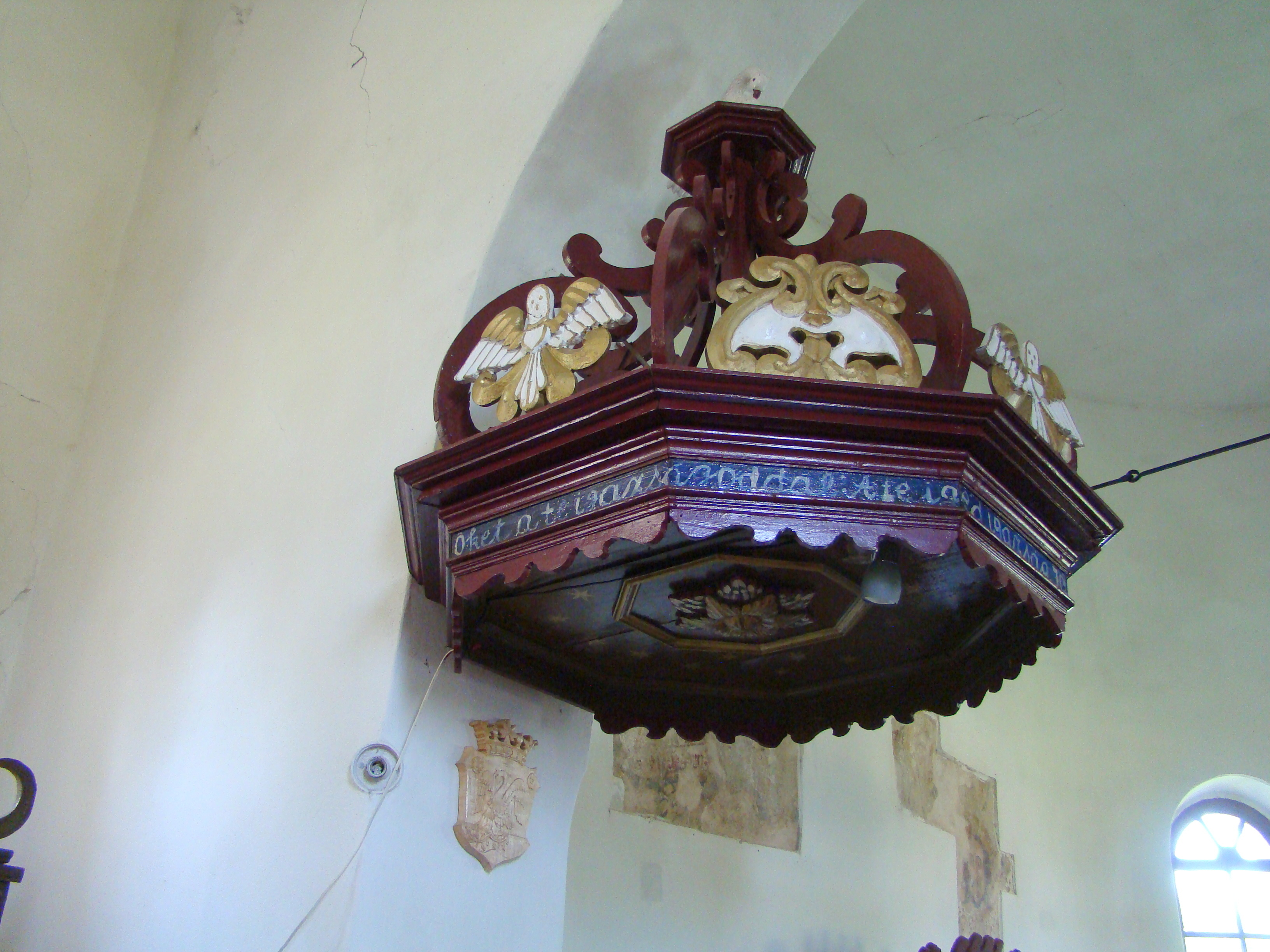 Reformed church in Alma, Sibiu county, Romania